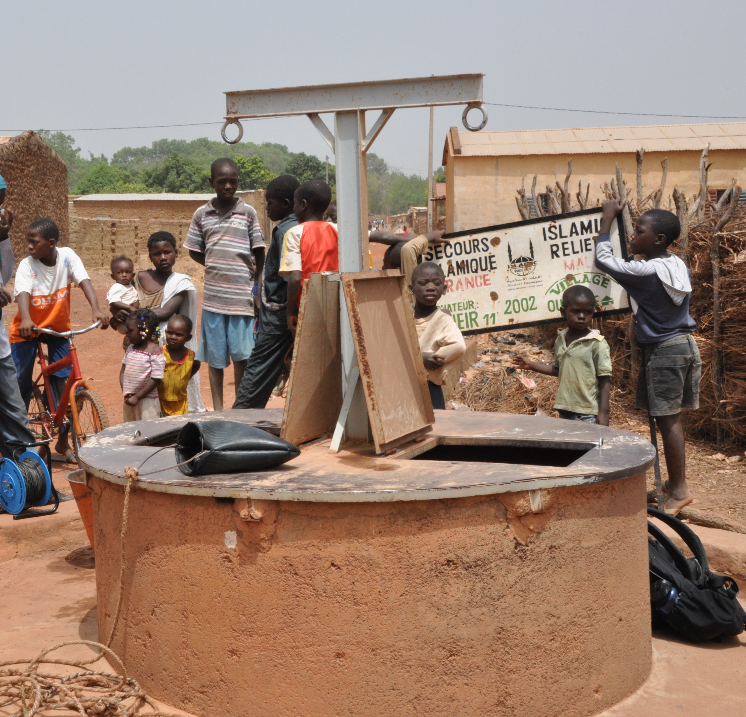 Actively used, hand-dug well located in Ouelessebougou, Mali, Africa. The well is cased with concrete rings (see associated photograph for view into the well), approximately 1.2 m in diameter and approximately 12 m deep. The well has been developed at the surface with an elevated top and cover, and rigging to aid extraction of water by hand bailing. Well was constructed in 2002 with funding from Islamic Relief.